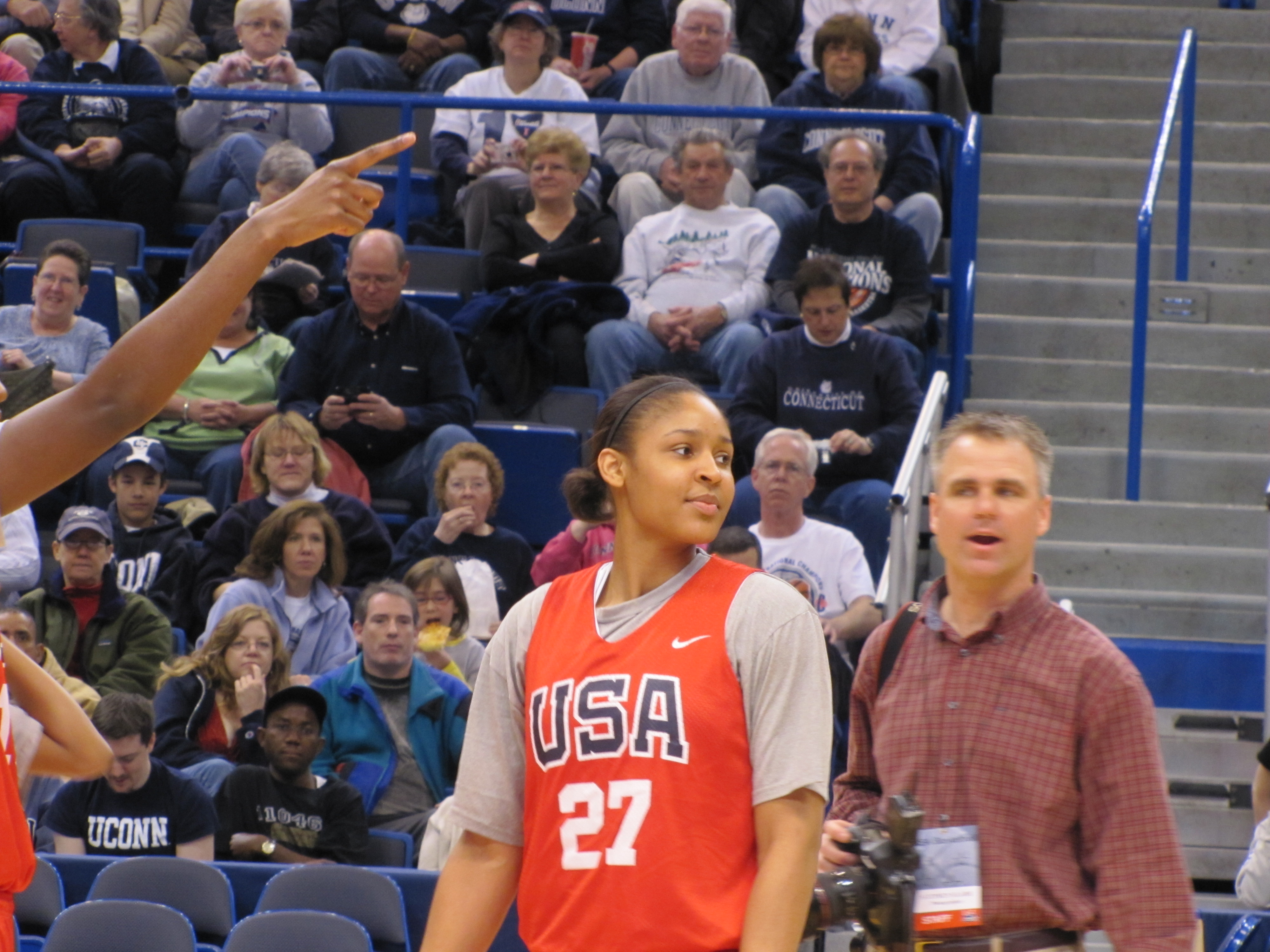 USA Training session for players on the USA National team and USA Select team, beginning training in preparation for the FIBA World Championship. Training took place 14-18 April, culminating in a red-white scrimmage on 18 April at the Veterans Memorial Coliseum in the XL Center, Hartford Connecticut